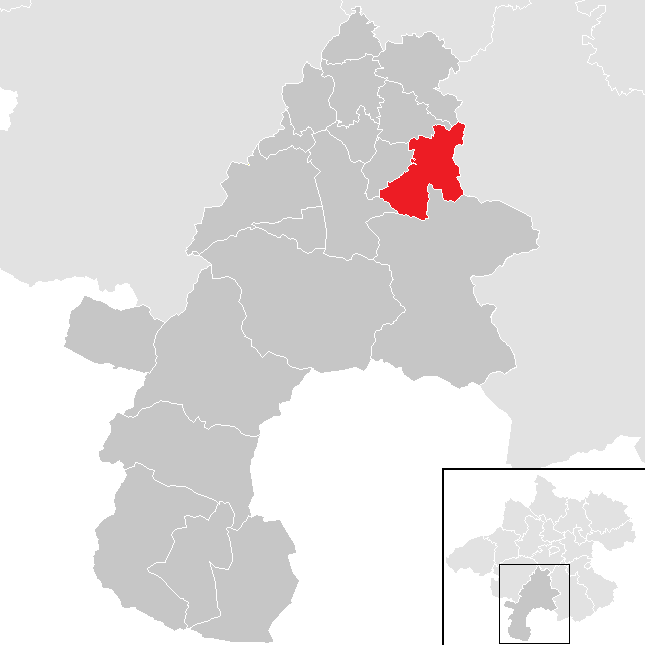 district Gmunden